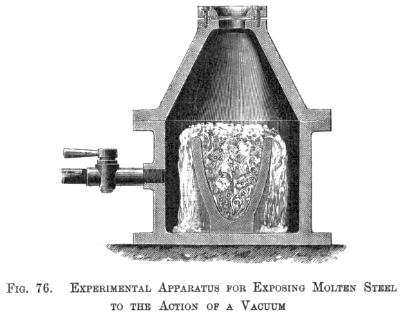 Experiment by Bessemer showing the presence of dissolved gas into the steel poured from a Bessemer converter : when steel is exposed to vacuum, the gases escape, making the liquid steel spreading out of the crucible (as the degassing of a carbonated drink).